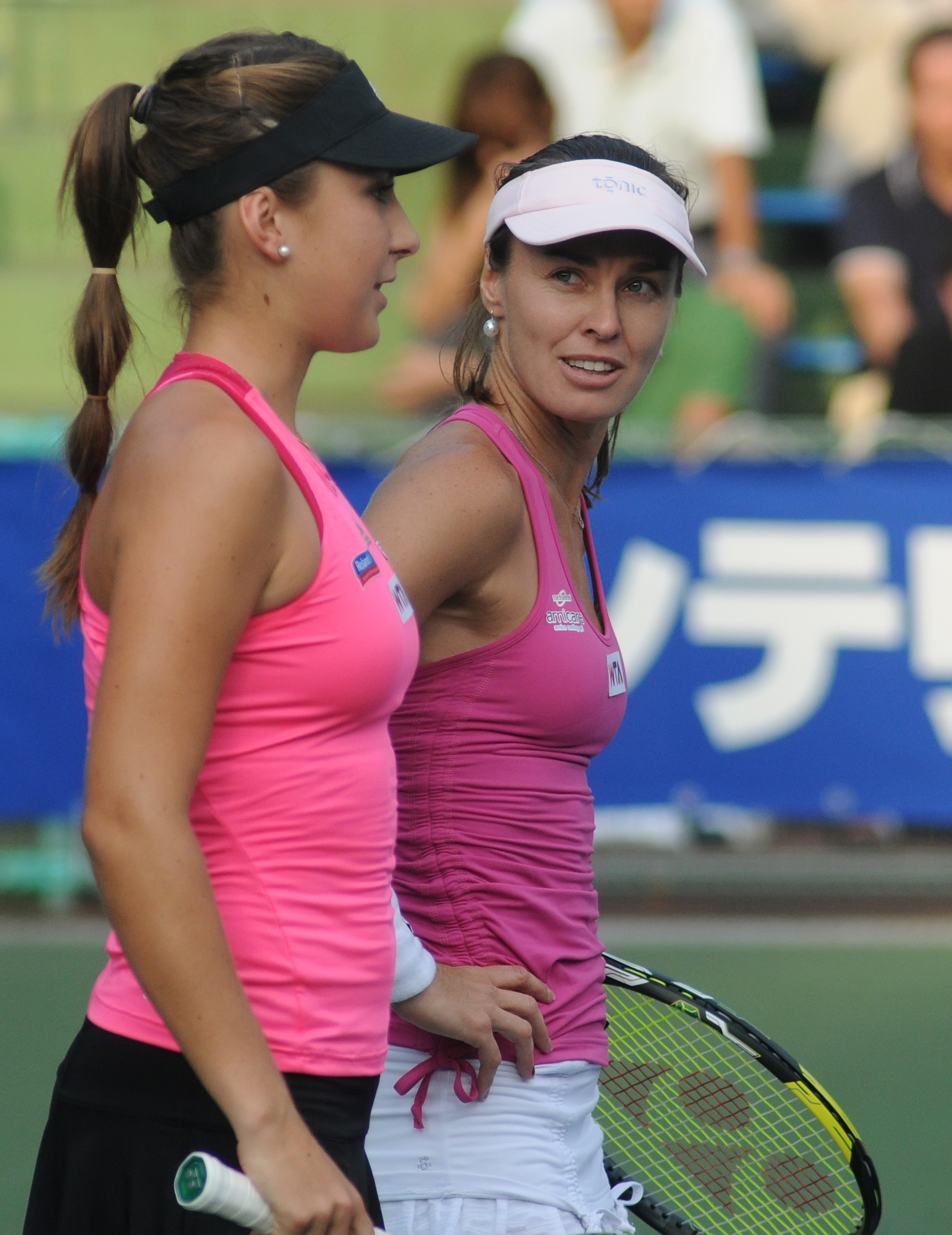 Belinda Bencic and Martina Hingis at the 2014 Toray Pan Pacific Open